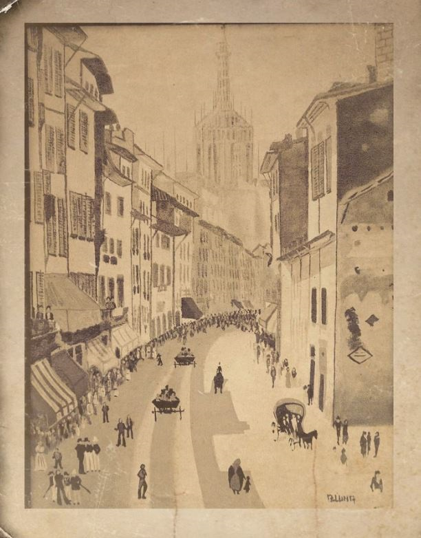 Andres Luna's painting as homage to Giuseppe Canella, who was an Italian Master Painter also trained in Architecture and design.